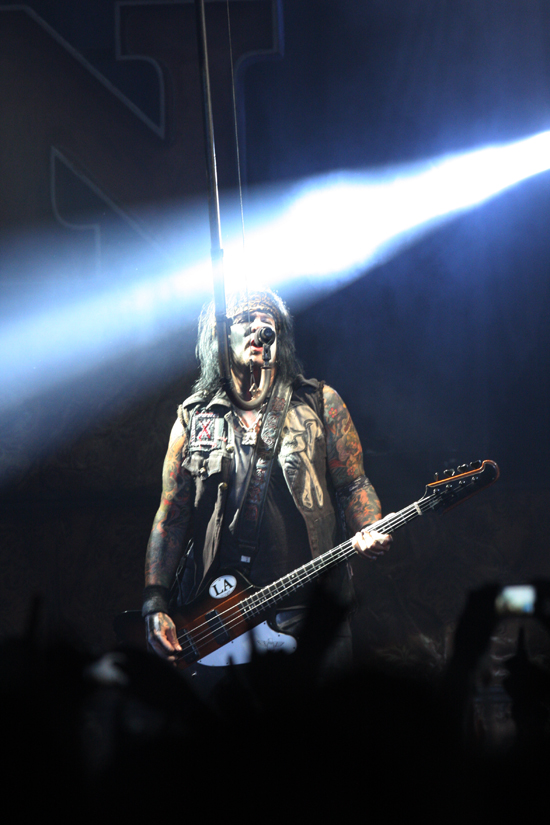 Motley Crue Sydney Entertainment Centre